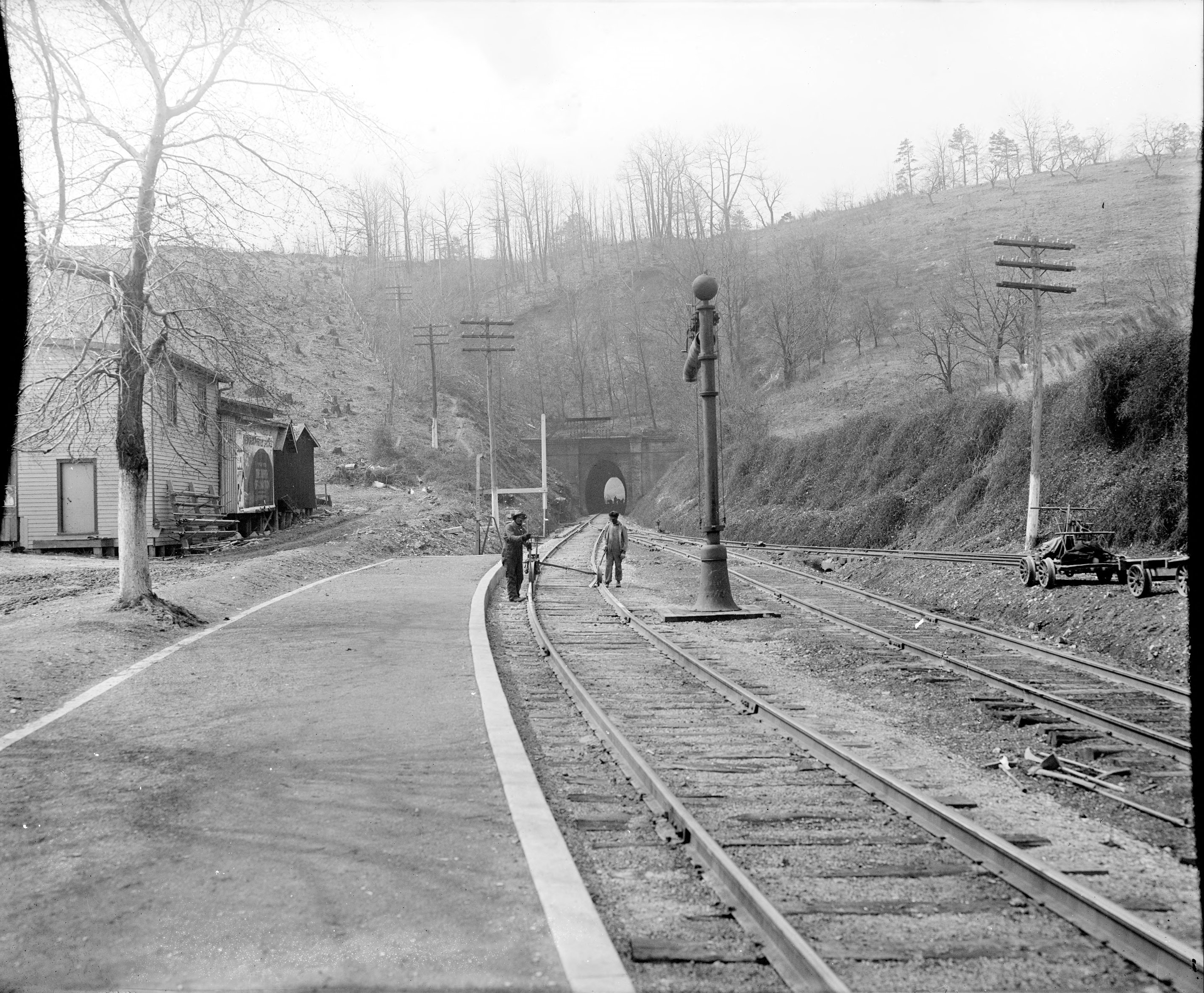 1917 picture of the Greenwood Tunnel on the Chesapeake and Ohio Railway from the platform of the Greenwood Station.